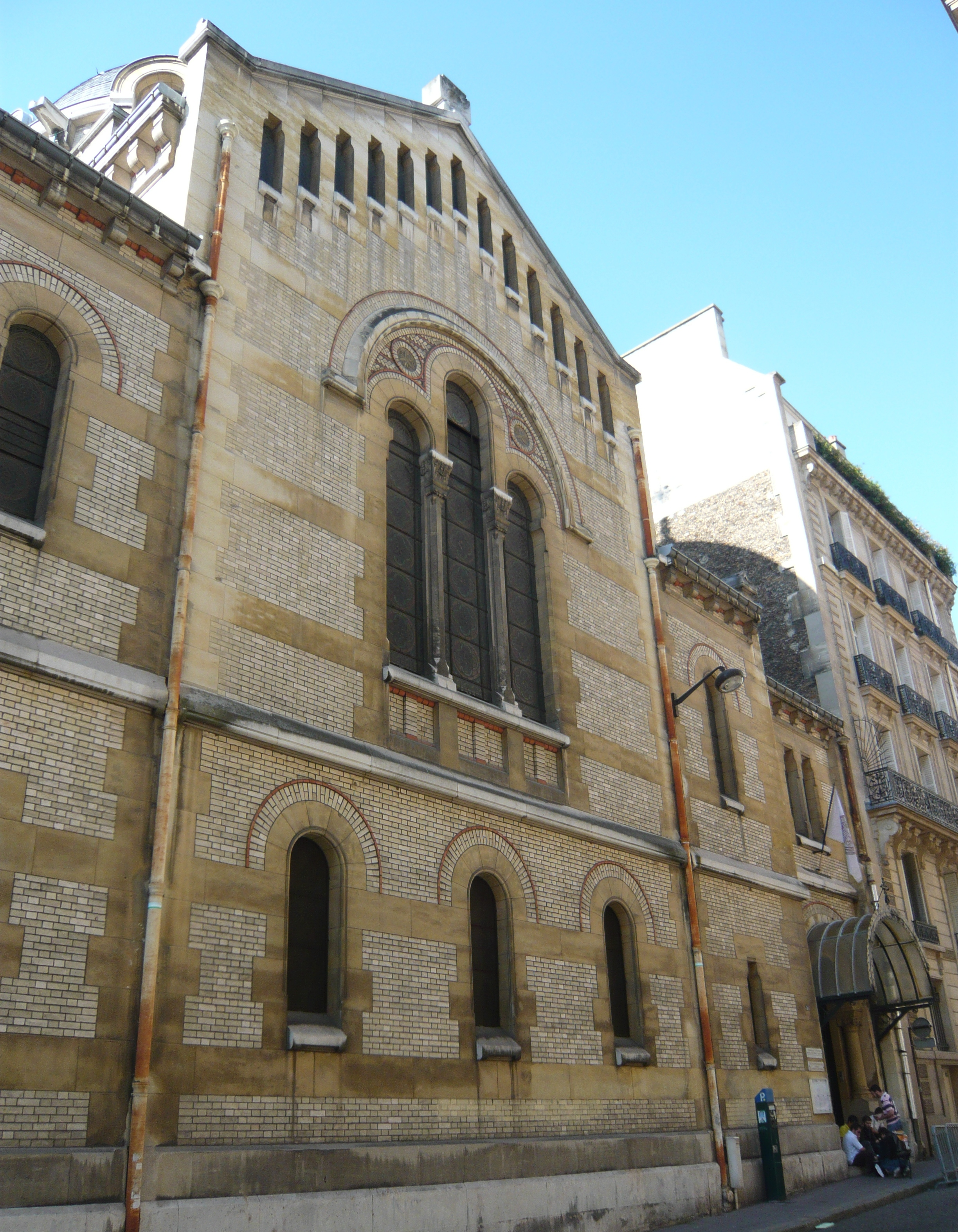 Greek Orthodox cathedral Saint-Étienne of Paris .